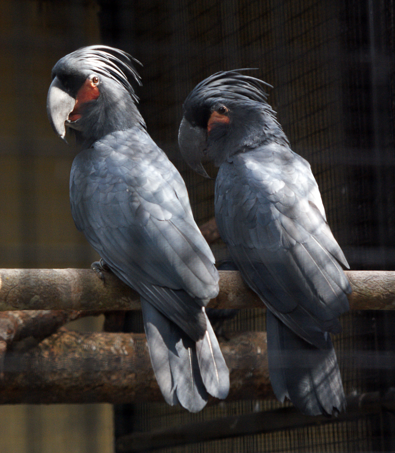 Palm Cockatoos (also known as the Goliath Cockatoos) at Melaka Zoo, Malaysia.